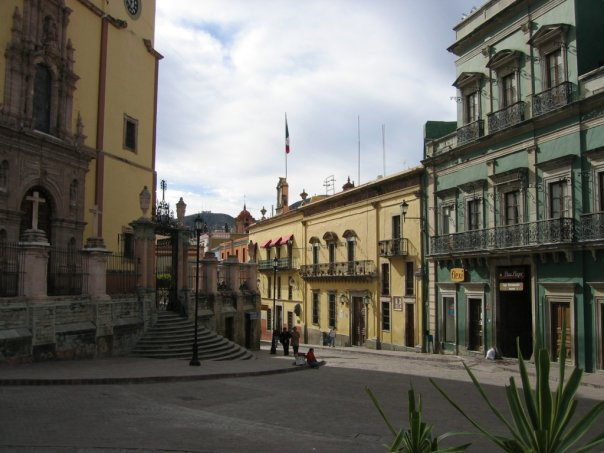 Street scene in Guanajuato.